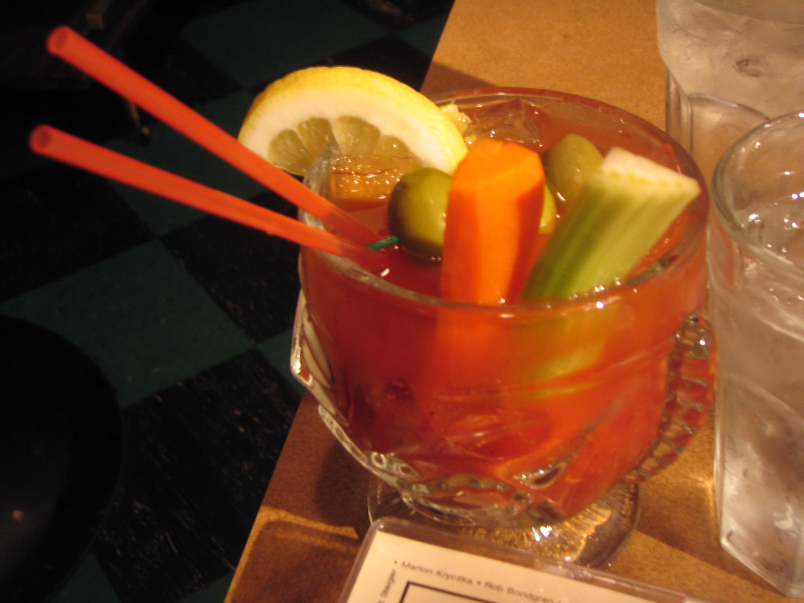 Bloody Mary: "This is a Bloody Mary from Tweet... Let's Eat which serves good food and drink and has excellent service." (Chicago, bloody mary, tweet... let's eat)